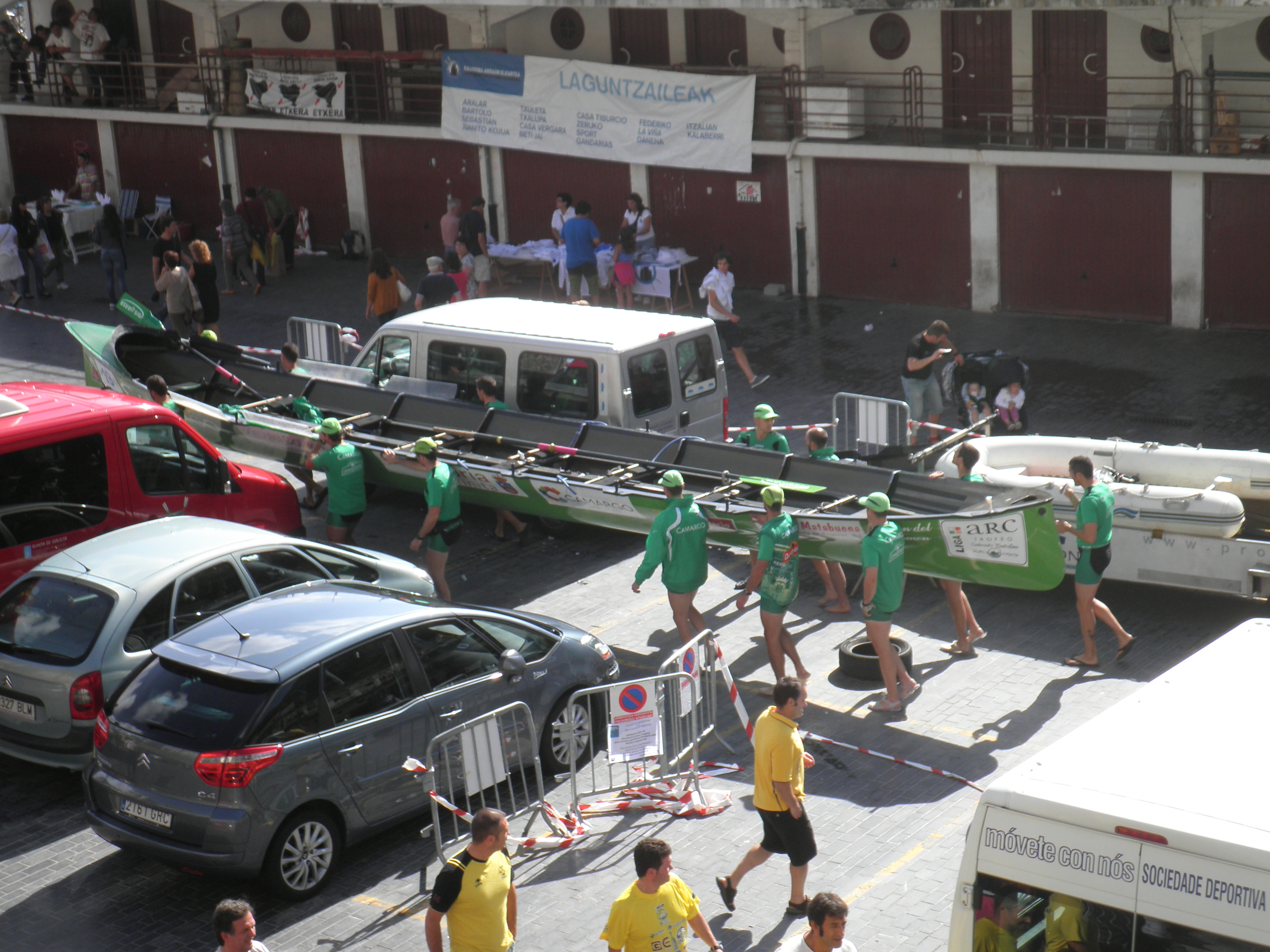 Flag of La Concha, 2012.